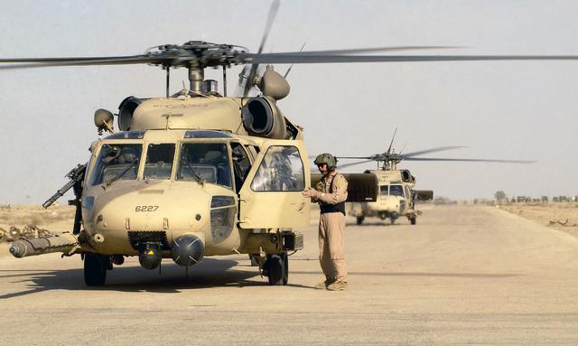 A pair of Air Force Reserve HH-60G Pave Hawk helicopters from the 301st Rescue Squadron, Patrick AFB, Fla., take part in the initial combat phase of Operation Iraqi Freedom. The reservists operated out of Tallil Air Base, Iraq, immediately after the base was secured by coalition ground forces. (U.S. Air Force photo/Staff Sgt. Shane Cuomo)